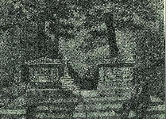 The grave of General Rautenstrauch from 1841, Warsaw (before 1945)